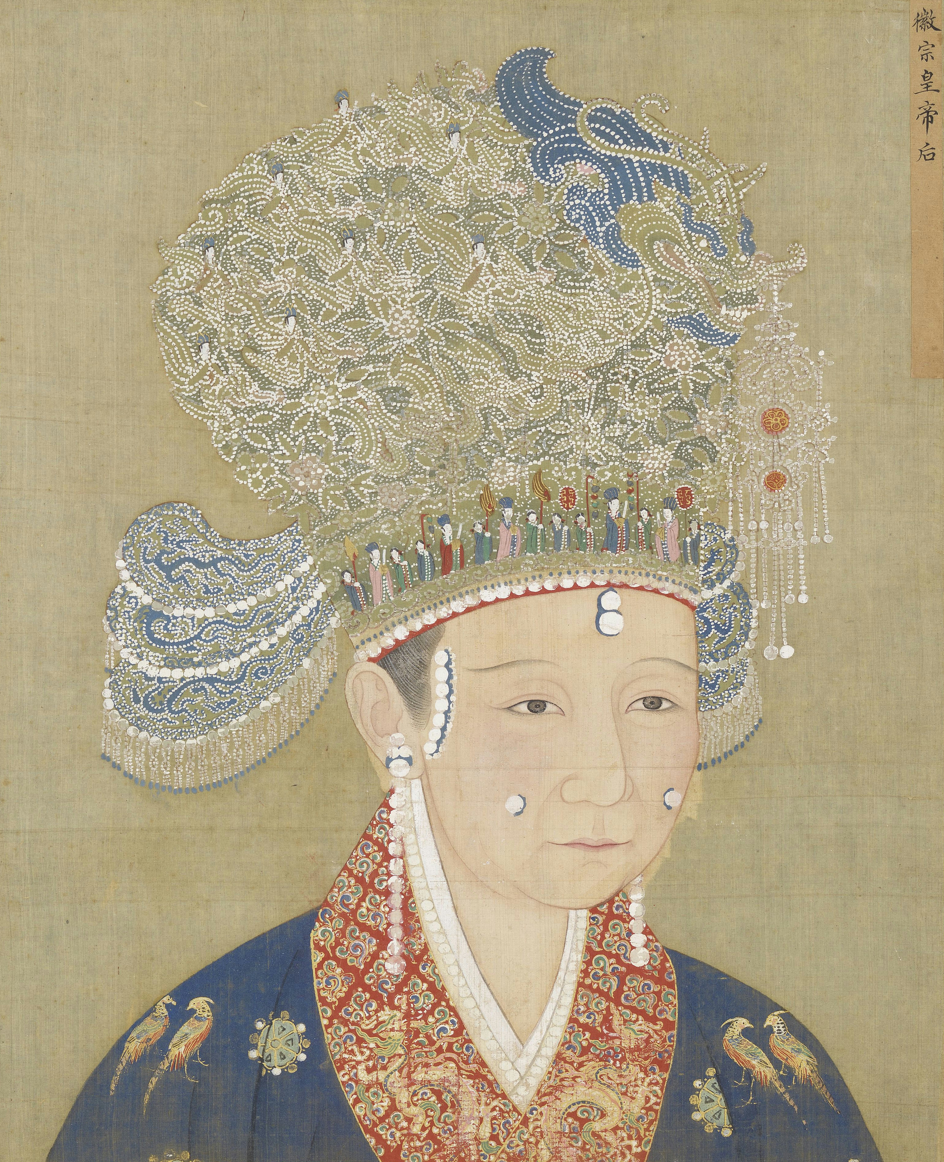 The Official Imperial Portrait of Song Dynasty's Empress